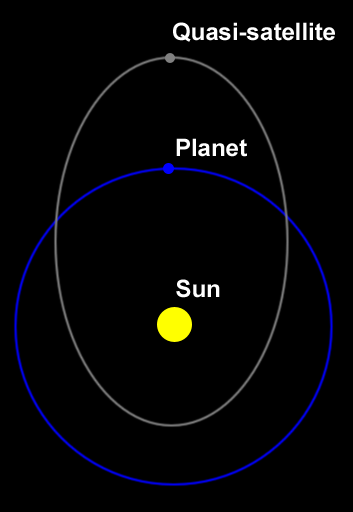 Orbital diagram of a quasi-satellite